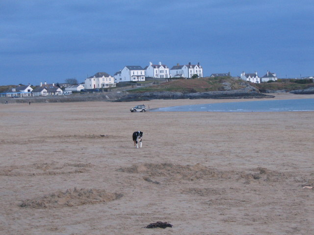 Trearddur Bay. A view looking to the southeast along the beach at Trearddur Bay.